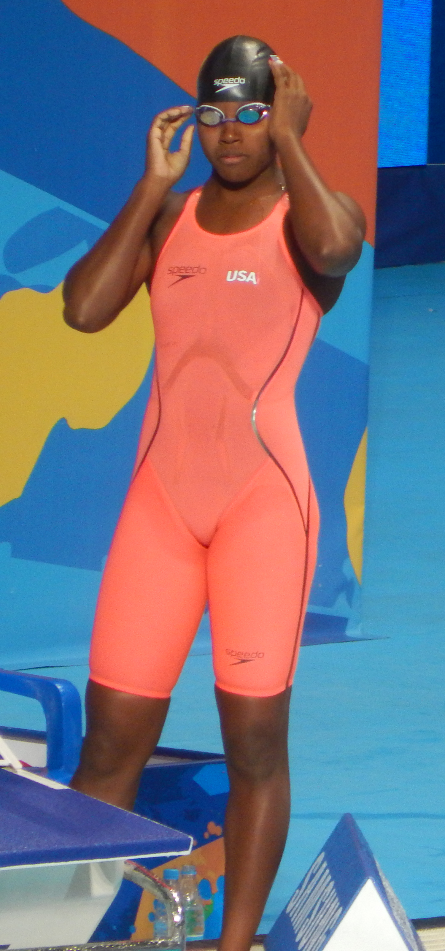 Simon Manuel at the 16th FINA World Championships in Kazan, Russia.